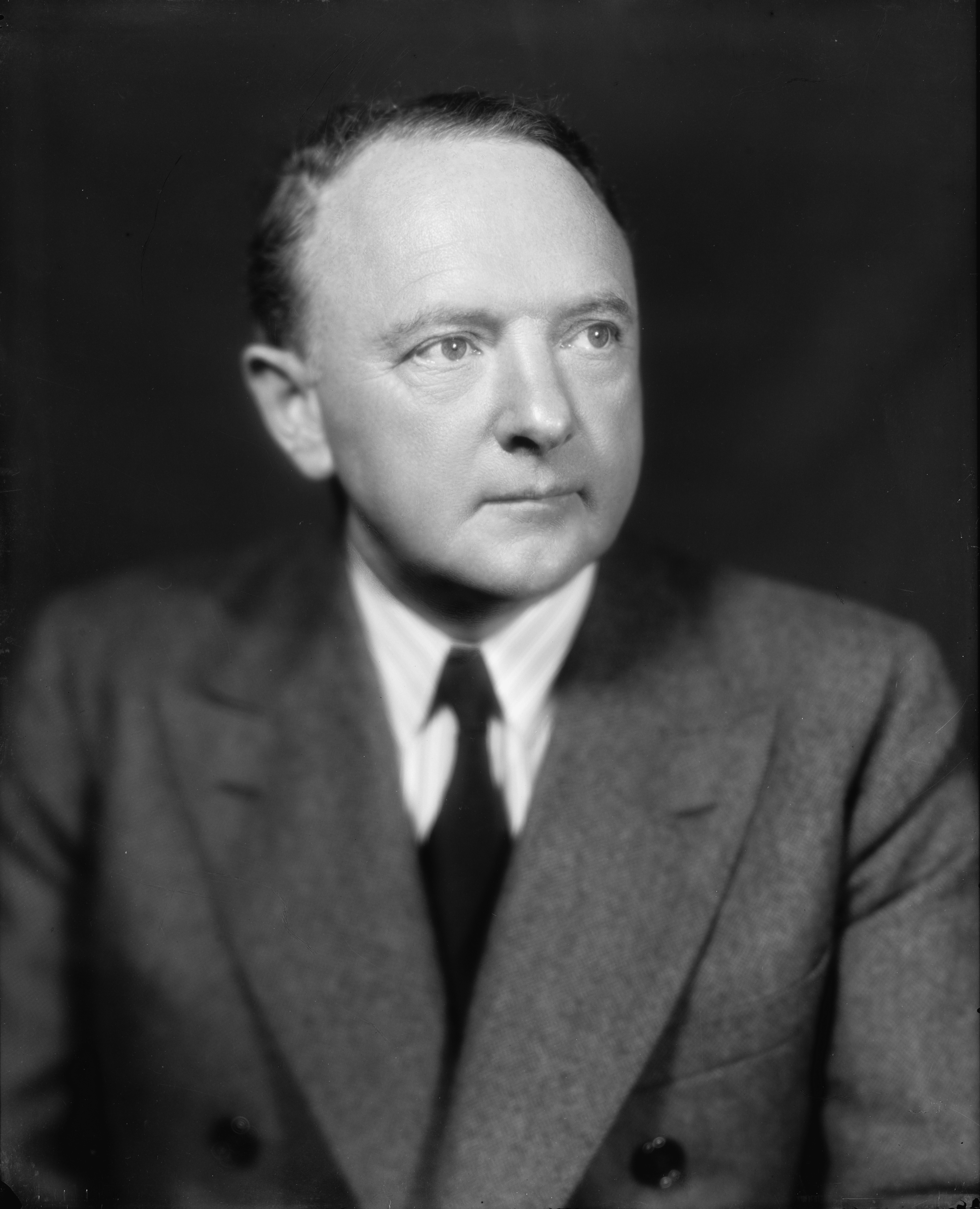 Harry Flood Byrd, Sr. (June 10, 1887 – October 20, 1966), American newspaper publisher, farmer, and politician, while Governor of Virginia